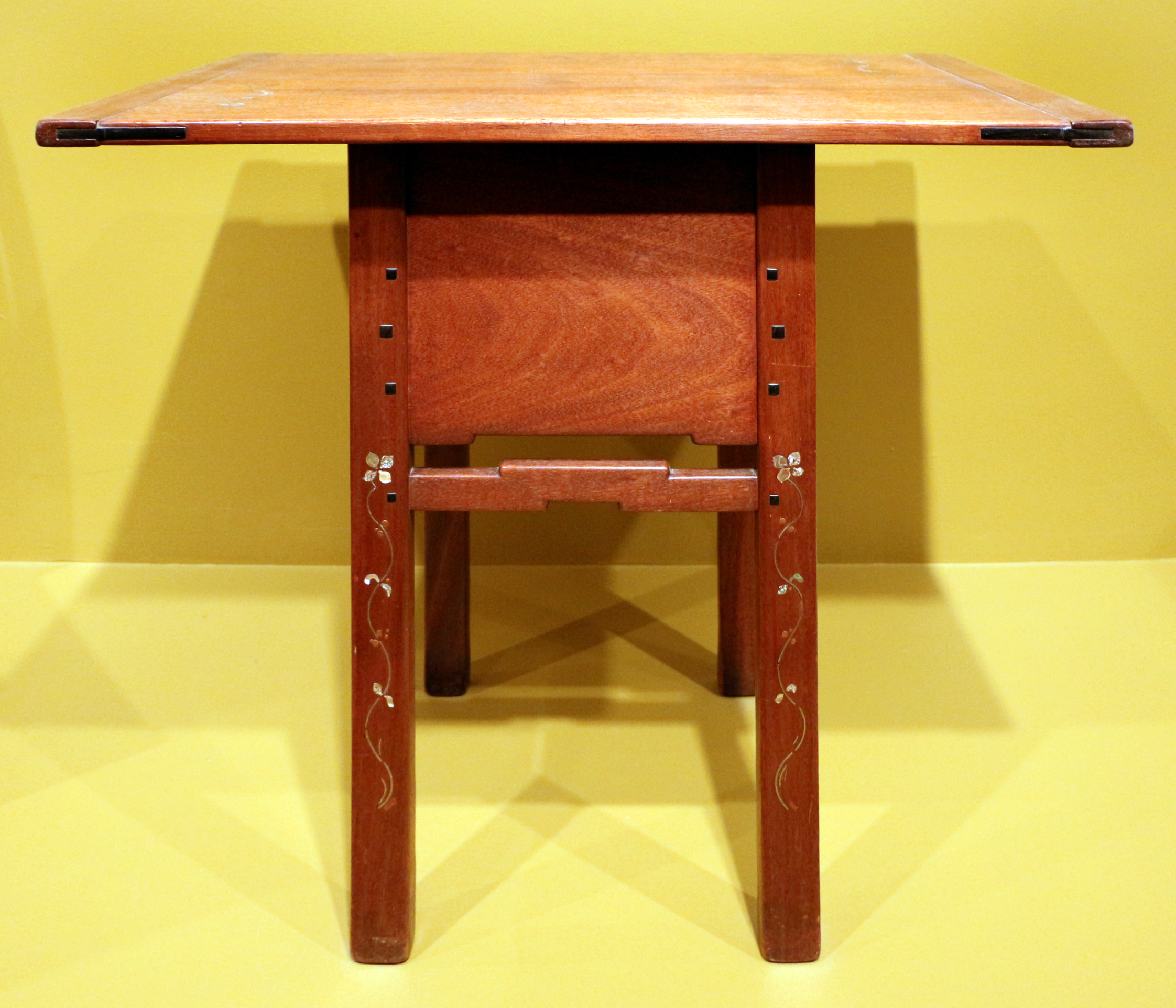 American furniture in the Art Institute of Chicago